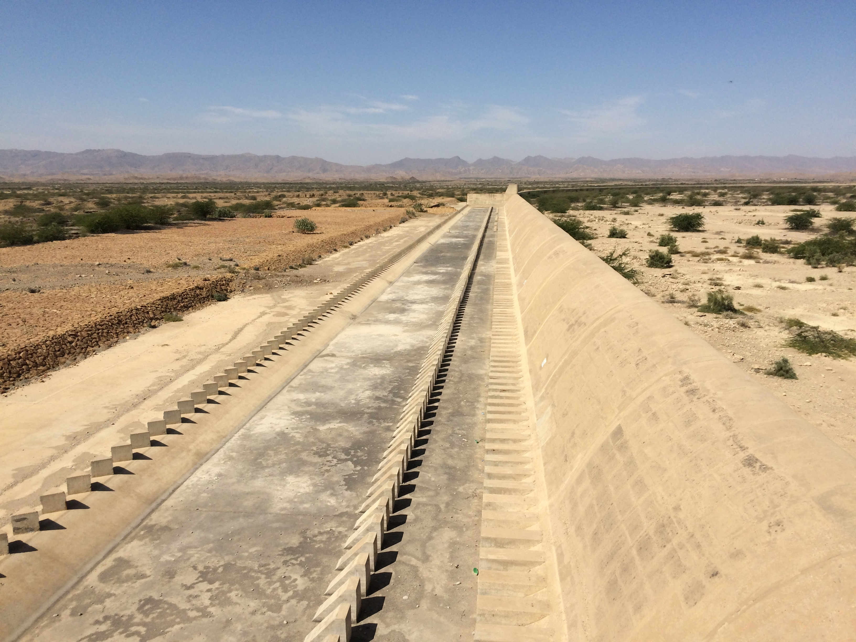 Side of Hub Dam